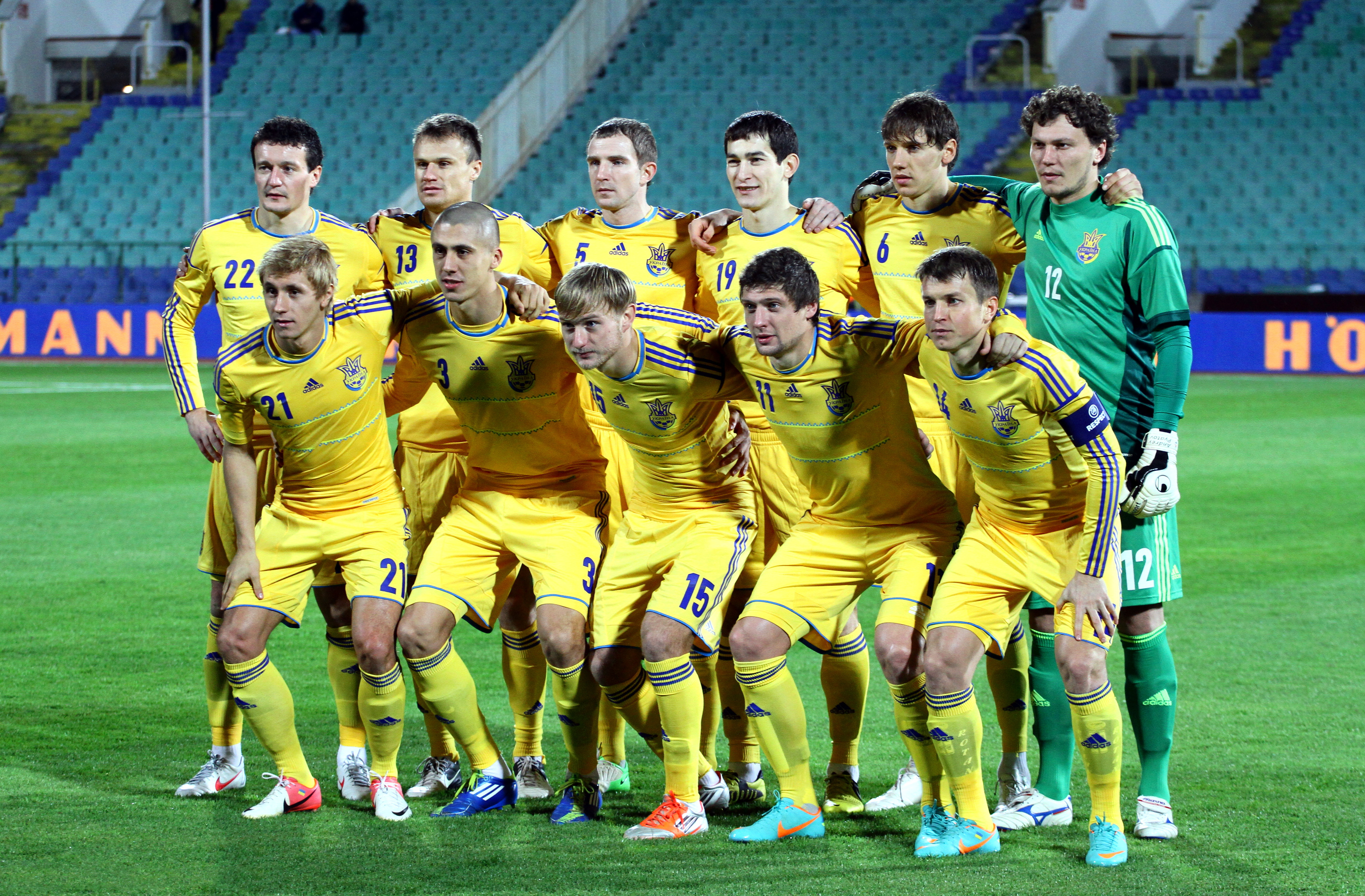 The Ukraine national football team, Sofia, Bulgaria november 2012.